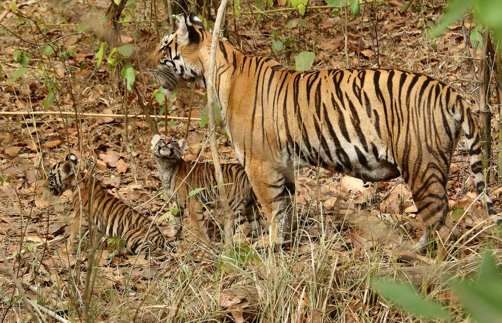 Tigress Indrani in Kanha National Tiger reserve of central India.